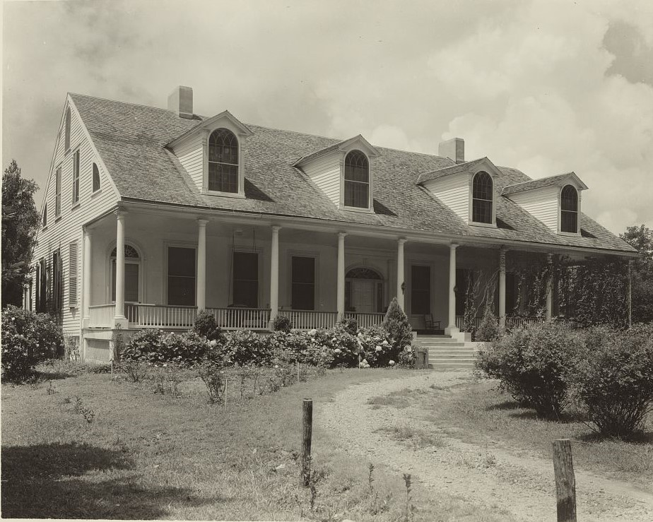 Title The Briars, Natchez vic., Adams County, Mississippi Contributor Names Johnston, Frances Benjamin, 1864-1952, photographer Created / Published 1938. Subject Headings - United States--Mississippi--Adams County--Natchez vic. - Dormers. - Porches. - Doors & doorways. - Houses. - Mississippi--Adams County--Natchez Vic Format Headings Photographic prints. Notes - Title from item. - Built by Judge Perkins. The house was leased from 1827 to 1850 by William Burr Howell, and his wife Margaret Louisa Kempe. Their daughter Varina married Jefferson Davis in this house in 1845. - Building/structure dates: before 1818. - Related names: Mrs. W.W. Wall. - Corresponding Carnegie Survey of the Architecture of the South neg. no. 1017. Library has no record of having this neg. - Forms part of: Carnegie Survey of the Architecture of the South (Library of Congress). Medium 1 photographic print. Call Number/Physical Location LOT 12634 [item] [P&P] Repository Library of Congress Prints and Photographs Division Washington, D.C. 20540 USA Digital Id ppmsca 23939 //hdl.loc.gov/loc.pnp/ppmsca.23939 Control Number csas200907153 Reproduction Number LC-DIG-ppmsca-23939 (digital file from print) Rights Advisory No known restrictions on publication. Online Format image Description 1 photographic print.